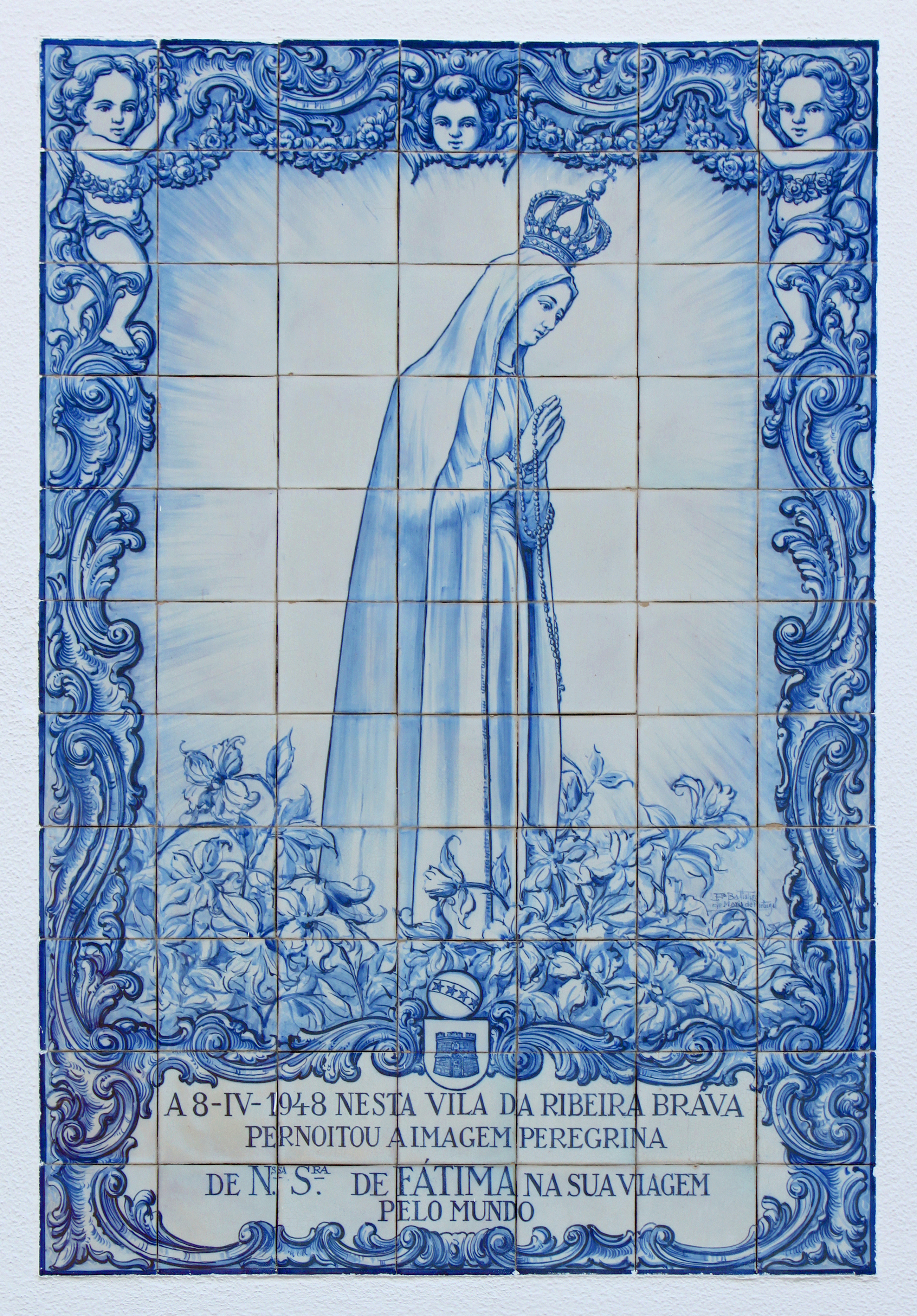 "Our Lady of Fátima". Ceramic tiles (Azulejo) at the wall of the Igreja de São Bento, Ribeira Brava, Madeira, Portugal.